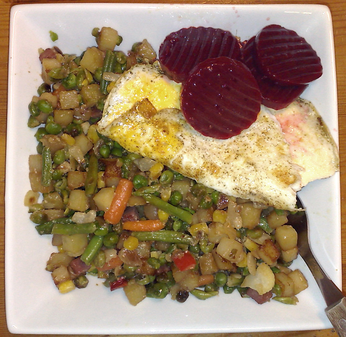 This is a serving of the Swedish dish pyttipanna. This particular serving was made from store-bought pyttipanna (potatoes, meat and onion), and two different kinds of frozen vegetable packs (including peas, corn, red bell pepper, baby carrots, etc). Served with a fried egg and beetroot.